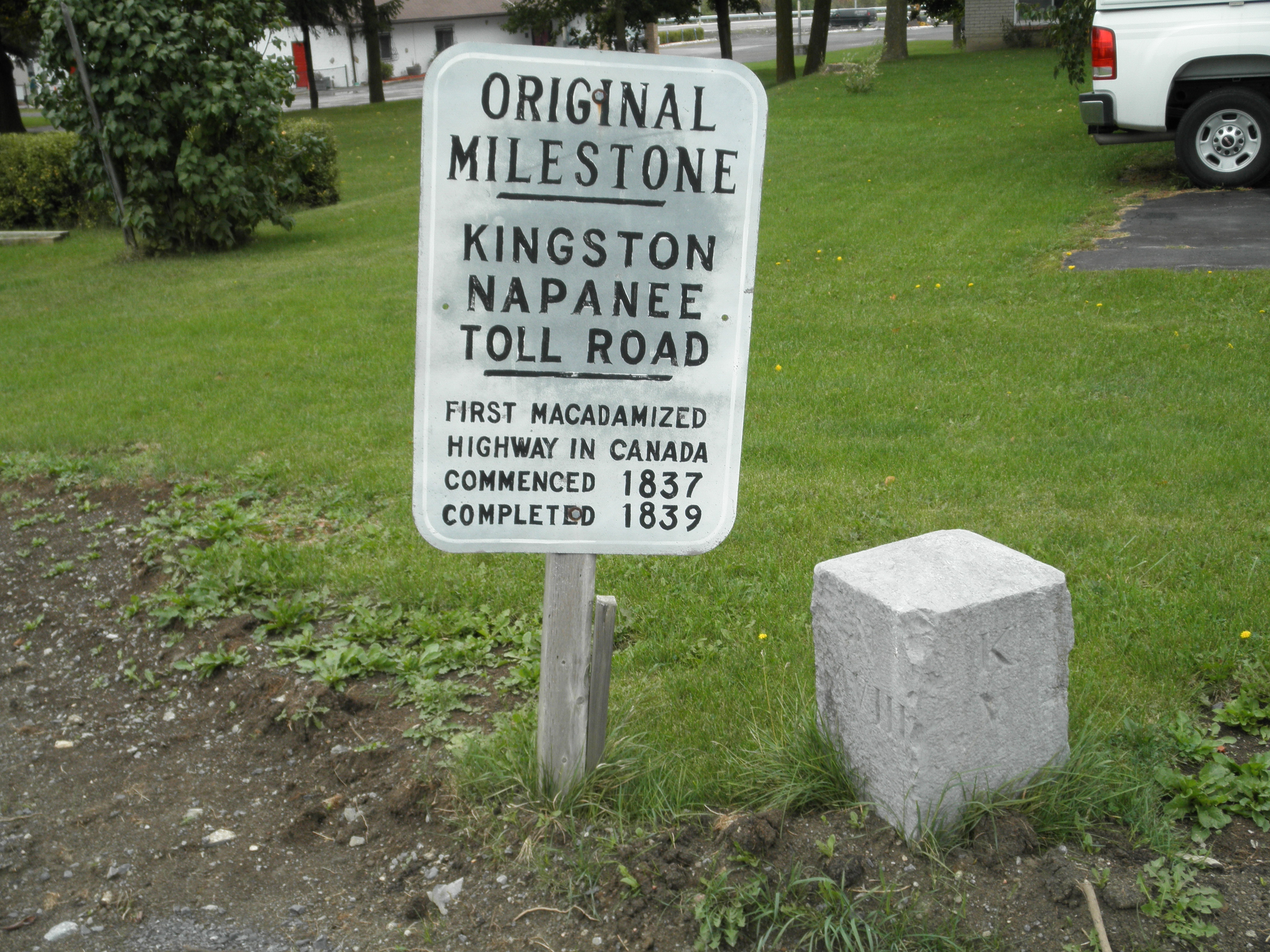 Mile 0 on this 23-mile portion of the 1817 York Road (Ontario Highway 2) from Napanee was near the centre of town (Dundas and Centre, Hwy 2/41) and from Kingston was at the former highway 2/33 crossroads (Princess and Bath), then outside the city. Originally a muddy horse path, this was converted to toll road and macadamised (as a form of gravel road) in the late 1830s. The stones are engraved on two of the four faces; facing southwest 'N' and the number of miles to Napanee, facing southeast 'K' and the miles to Kingston. These predate the Ontario numbered highway system (the Provincial Highway was assembled from smaller intercity roads in 1917-1918 and the tolls removed); at the time, each section was maintained by local companies as a gravel stagecoach road. There were no motorcars, no 18-wheel lorries, no kilometres and no 401 in this era. The distances are in miles and are Roman numerals. One of the original milestones is still extant in the former Kingston Township at the northeast corner of Princess Street (old Highway 2) and Collins Bay Road, "K - V": Kingston mile 5. Others are still standing in Lennox and Addington counties in rural areas. A sign at Kingston 5 (Napanee 18) indicates these as: "Original milestone Kingston-Napanee toll road First Macadamized highway in Canada Commenced 1837 Completed 1839"